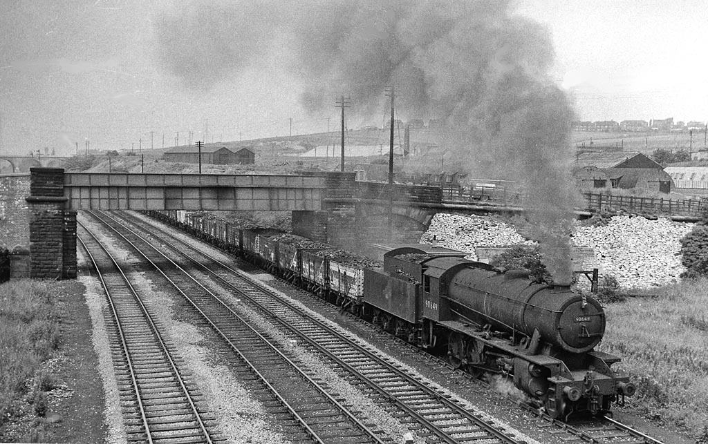 Up coal train at Beighton Junction. View northward, towards Rotherham etc. on the ex-Midland main line Chesterfield - Rotherham (North Midland Railway 'Old Road') south of Woodhouse Mill Station, where a loop from the ex-Great Central Sheffield - Nottingham main line joined the two routes at Beighton Junction. The train is typical of the traffic at the time (1963), a coal train headed by ex-War Department 2-8-0 No. 90649. The high ground in the background is between Swallow Nest and Aston, and the M1 now runs very near here. [There were also several railway lines in this vicinity and it is difficult now to locate this scene precisely].